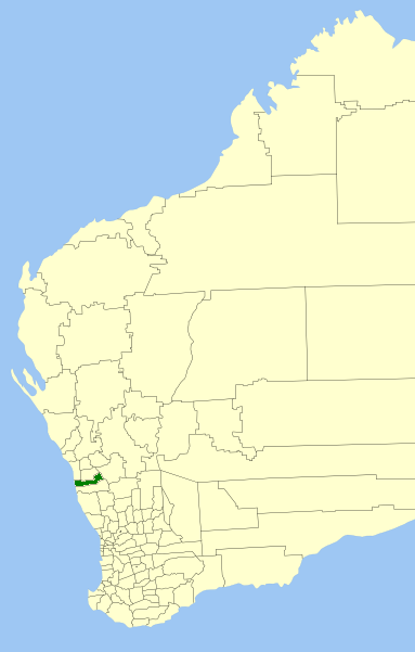 Description=Location of the Local Government Area in Western Australia